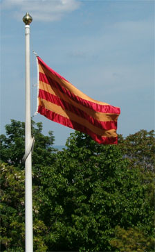 Flag of Budapest 1st district